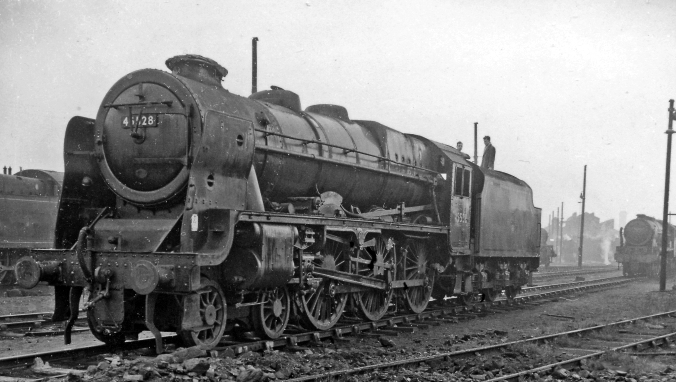 Condemned Rebuilt 'Patriot' in the yard of Willesden Locomotive Depot. View eastward, towards the main Sheds: principal ex-LNW Depot near Willesden Junction. No. 45528 'R.E.M.E.' (built 4/33 as 'Sir Herbert Walker, K.C.B.'), rebuilt unnamed 9/48, acquired name 'R.E.M.E.' - for the Royal Electrical and Mechanical Engineers - in 9/59, withdrawn 1/63. Here a few weeks earlier it is 'In Store', bereft of nameplates, with chimney sheeted over - and two men in the tender for some reason.